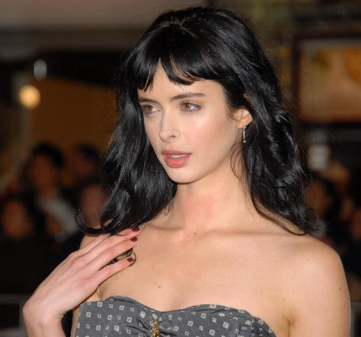 January 7, 2008 - 27 Dresses Premiere in Westwood